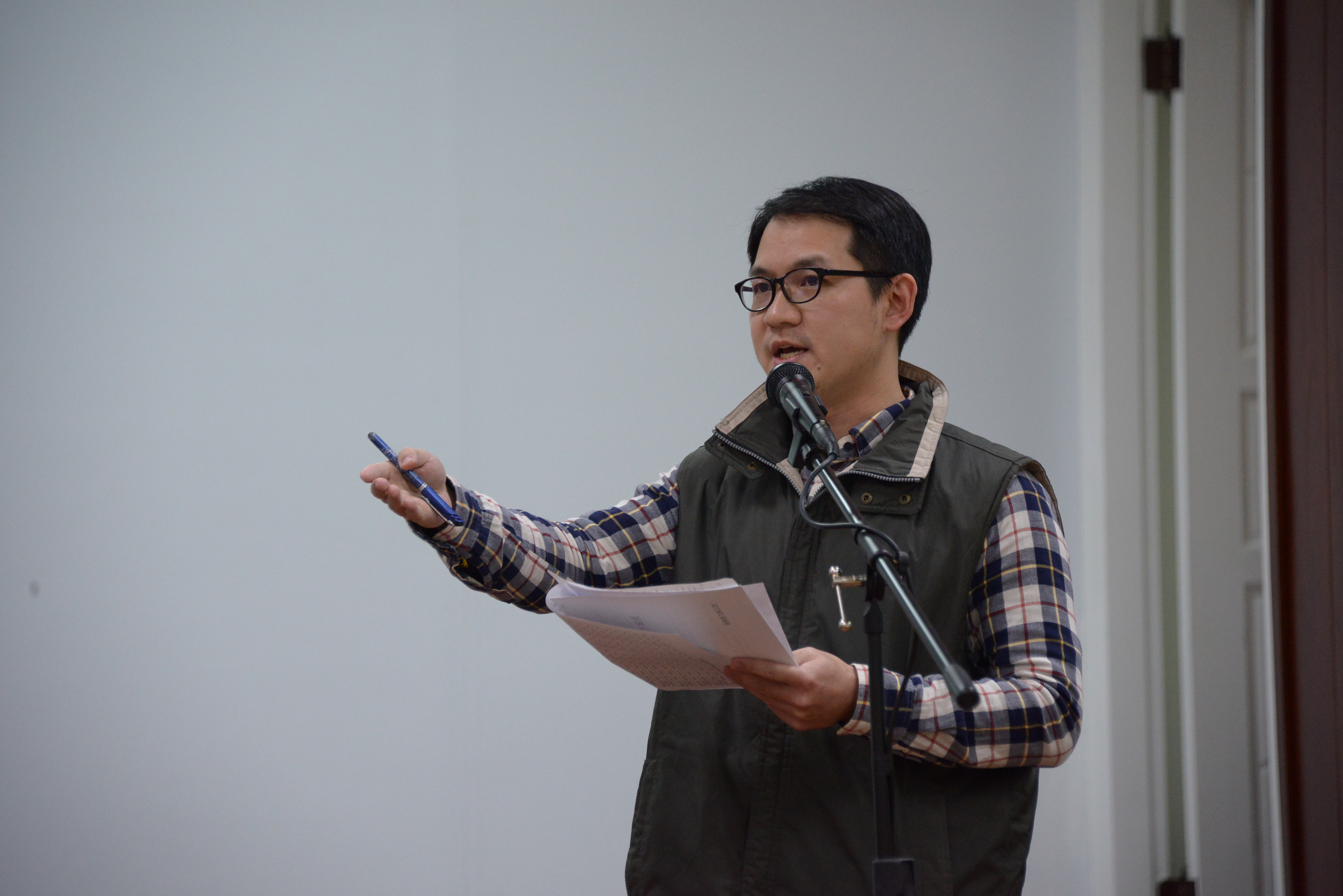 授權方式及範圍：中華民國總統府│政府網站資料開放宣告 Authorization Method & Scope: Office of the President, Republic of China (Taiwan) | Government Website Open Information Announcement